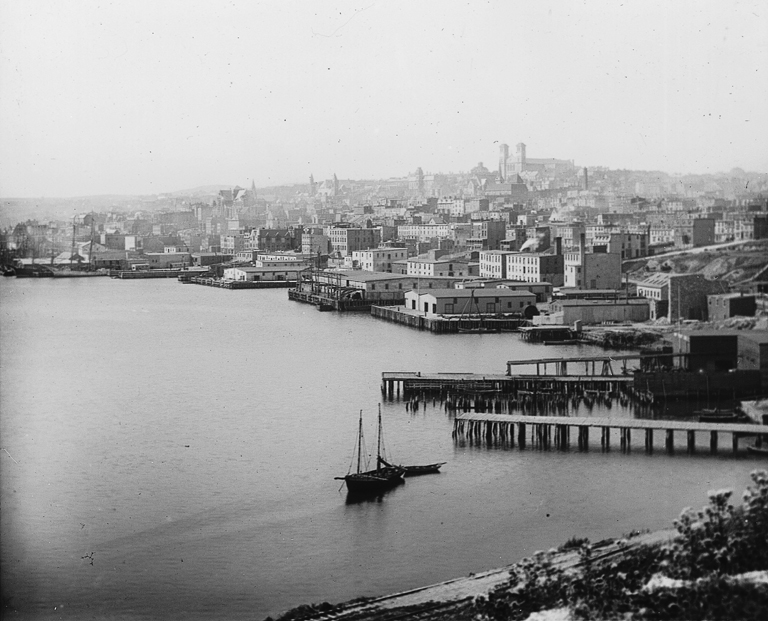 View from Signal Hill, St. John's, Newfoundland, about 1900.